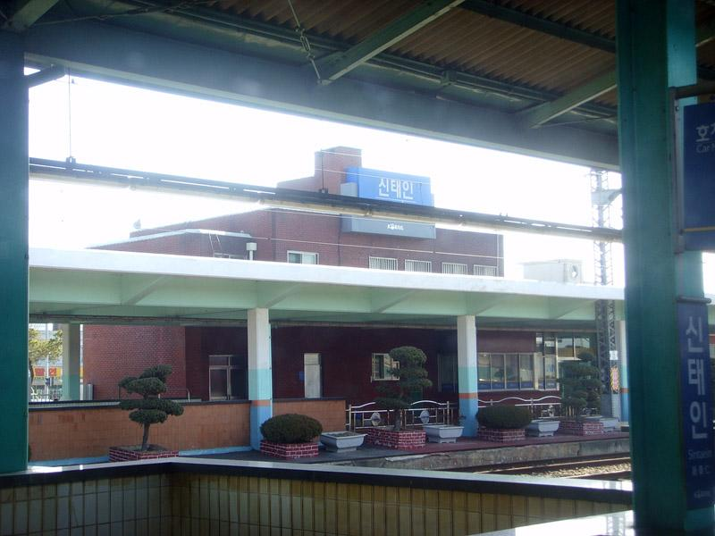 Sintaein Station, Honam Line (Sintaein-ri, Sintaein-eup, Jeongeup-si, Jeollabuk-do, South Korea)